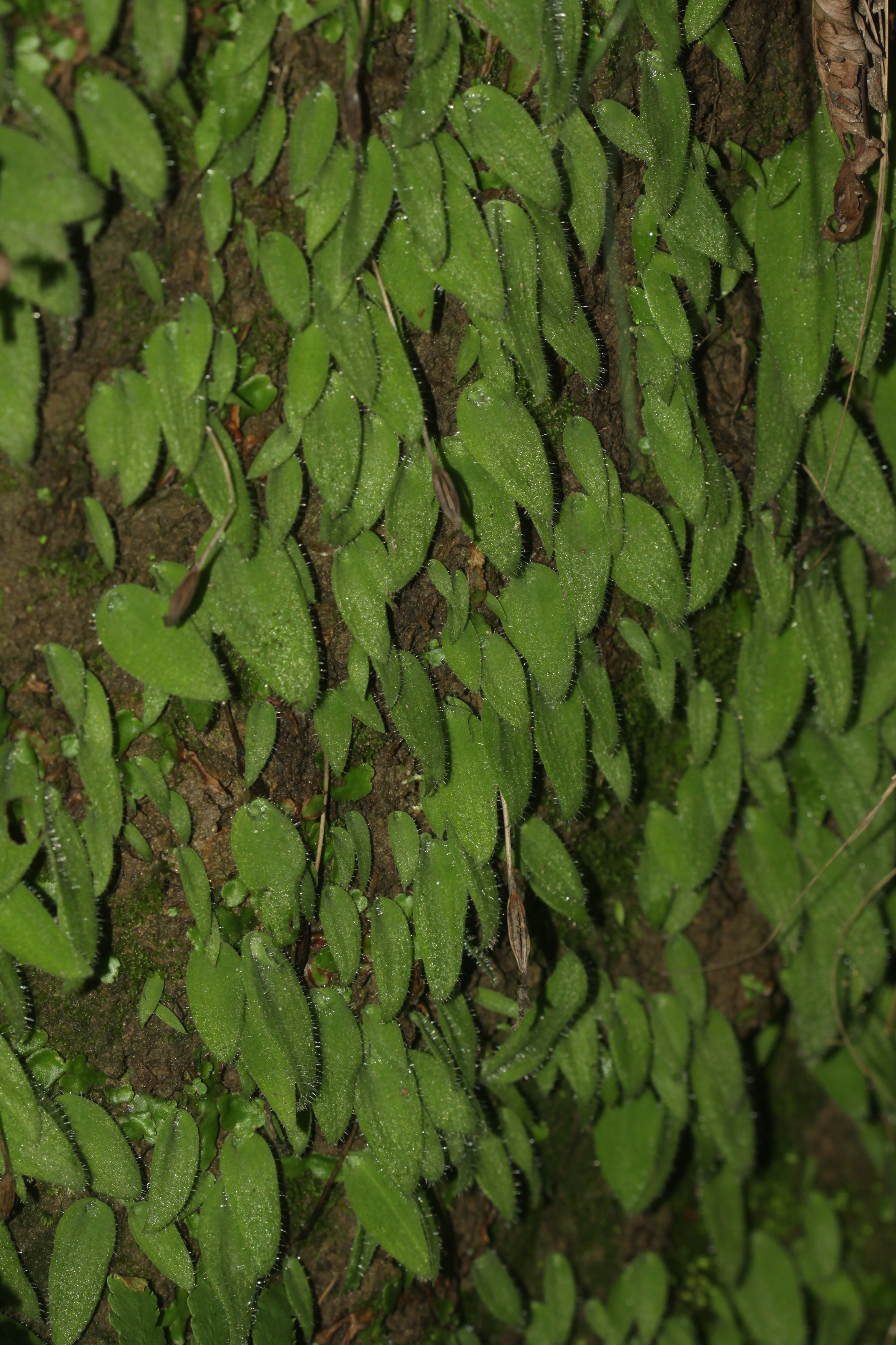 Diplomeris hirsuta is a beautifull small groud orchid species.